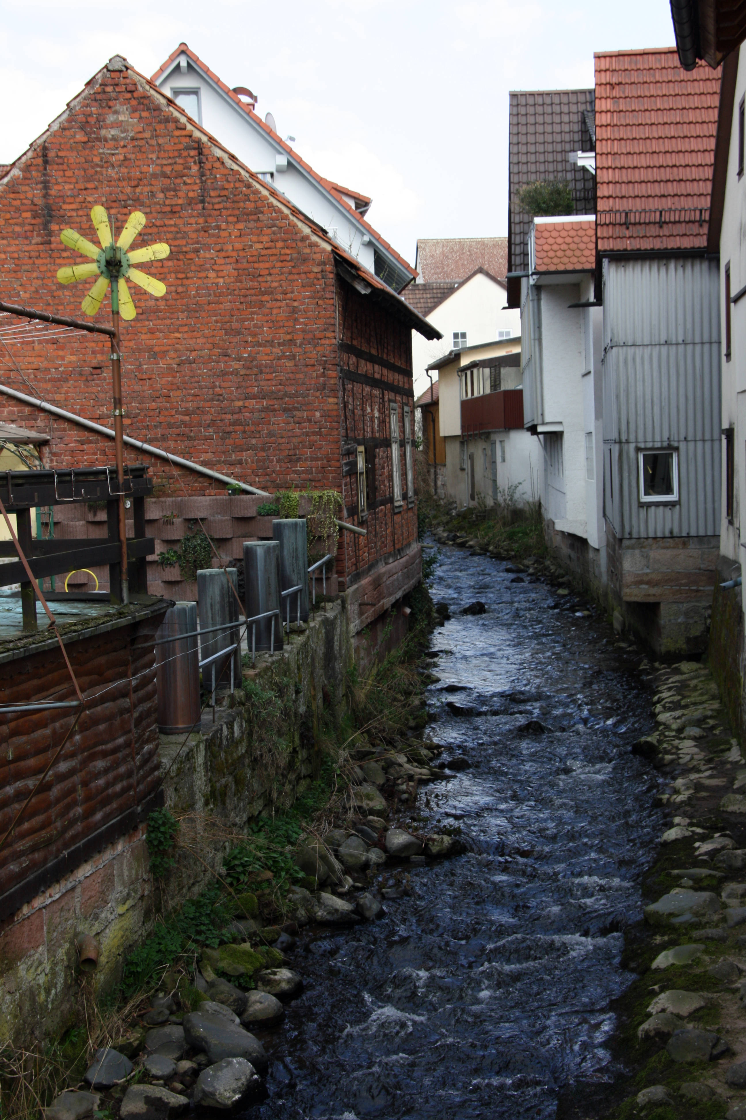 The river Fulda in the town of Gersfeld